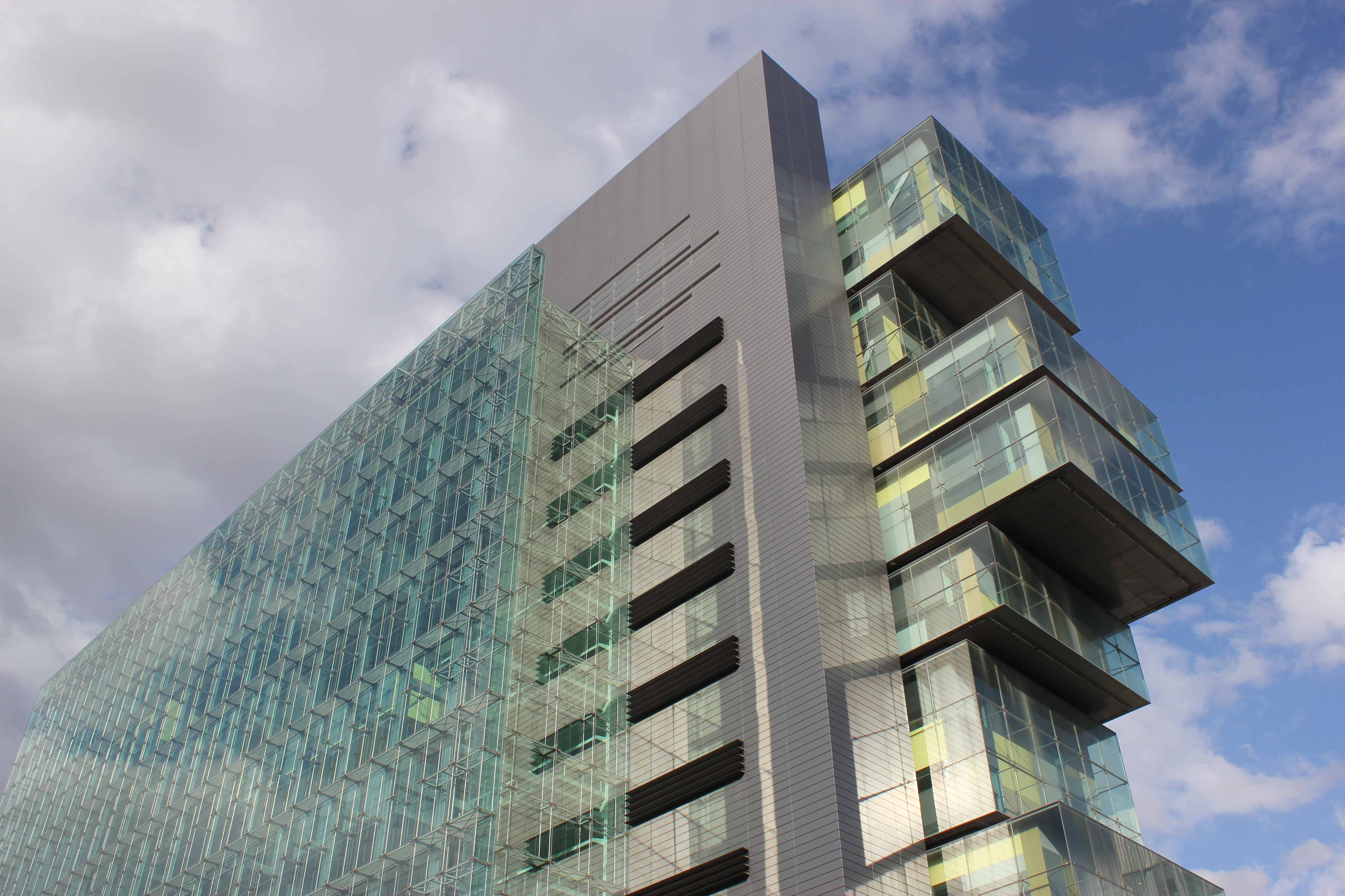 The glass wall of the Manchester Civil Justice Centre, in Spinningfields